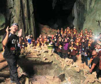 TM Earth Camp 2014, Northern Zone held at Gunung Stong State Park, Kelantan